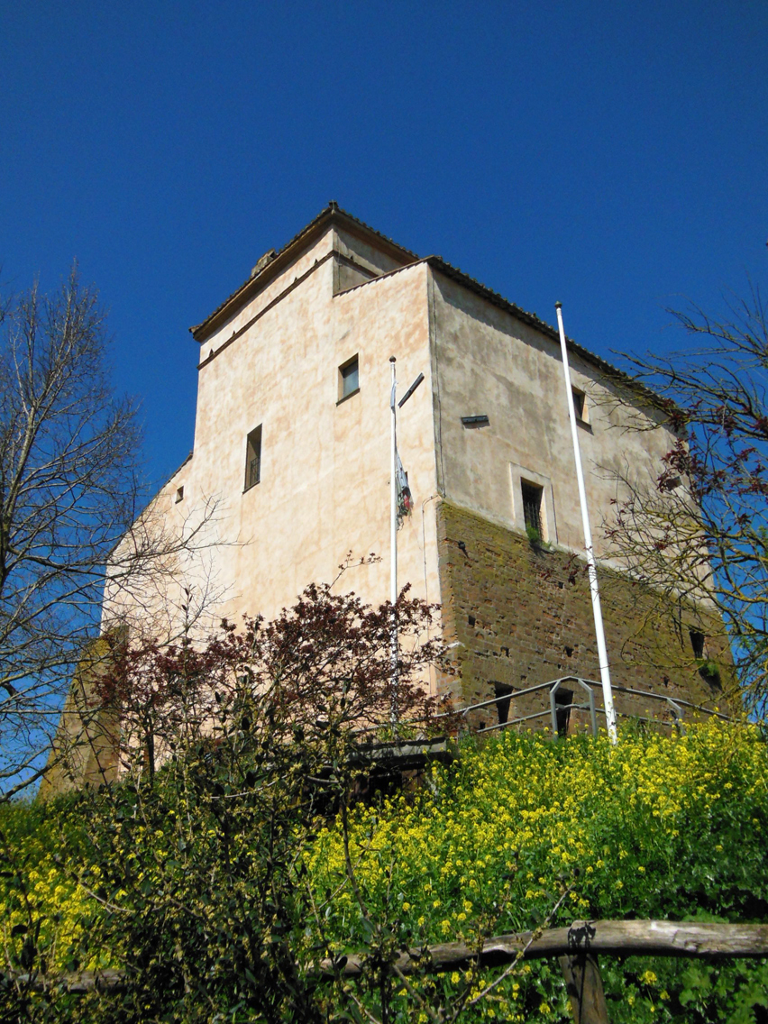 Tower of Perna in the Park of Decima Malafede in Rome